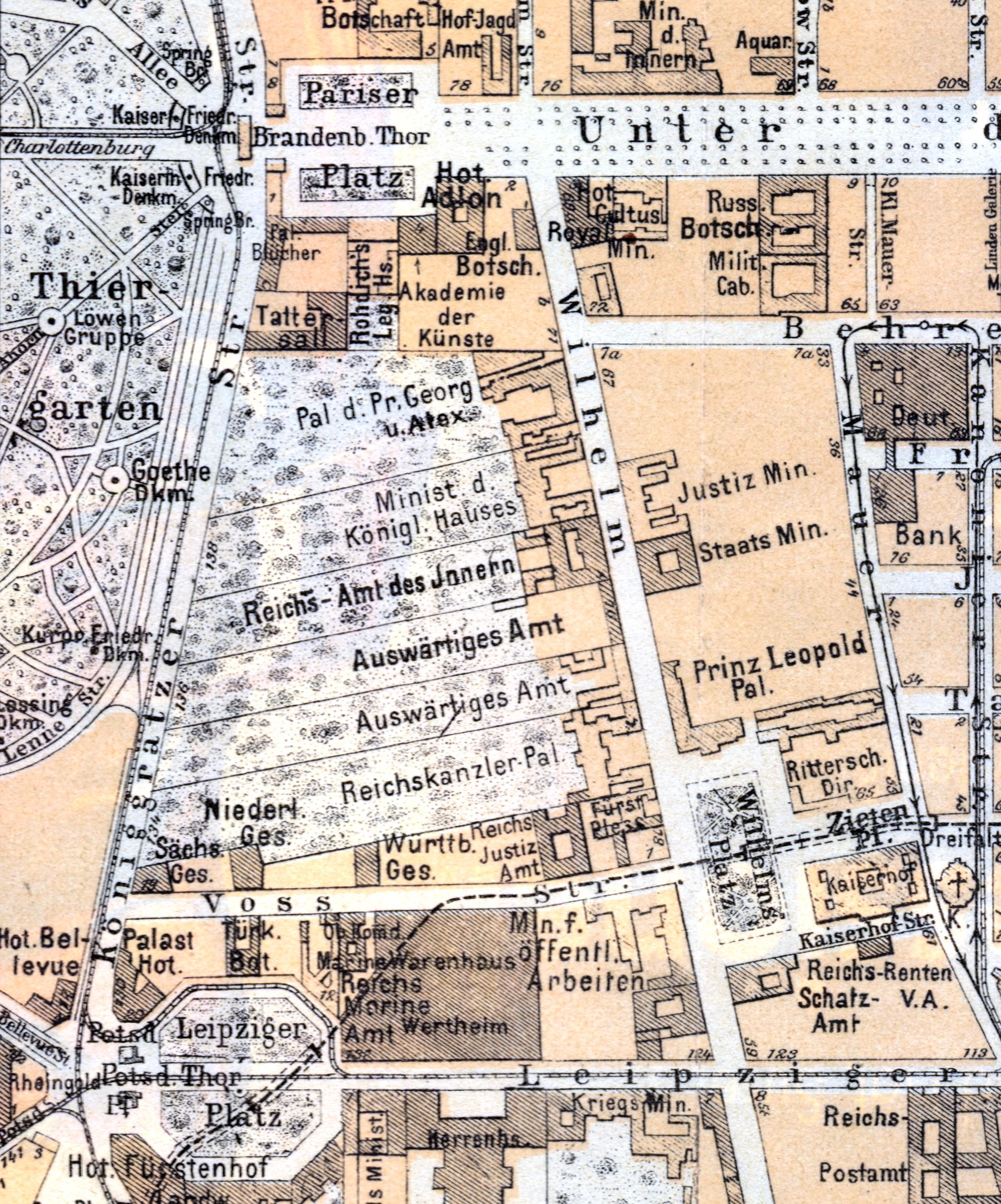 Berlin - plan of Minister Gardens (Ministergärten) 1904